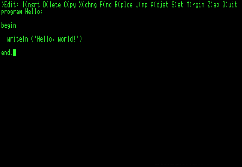 UCSD p-System Screenshot 1